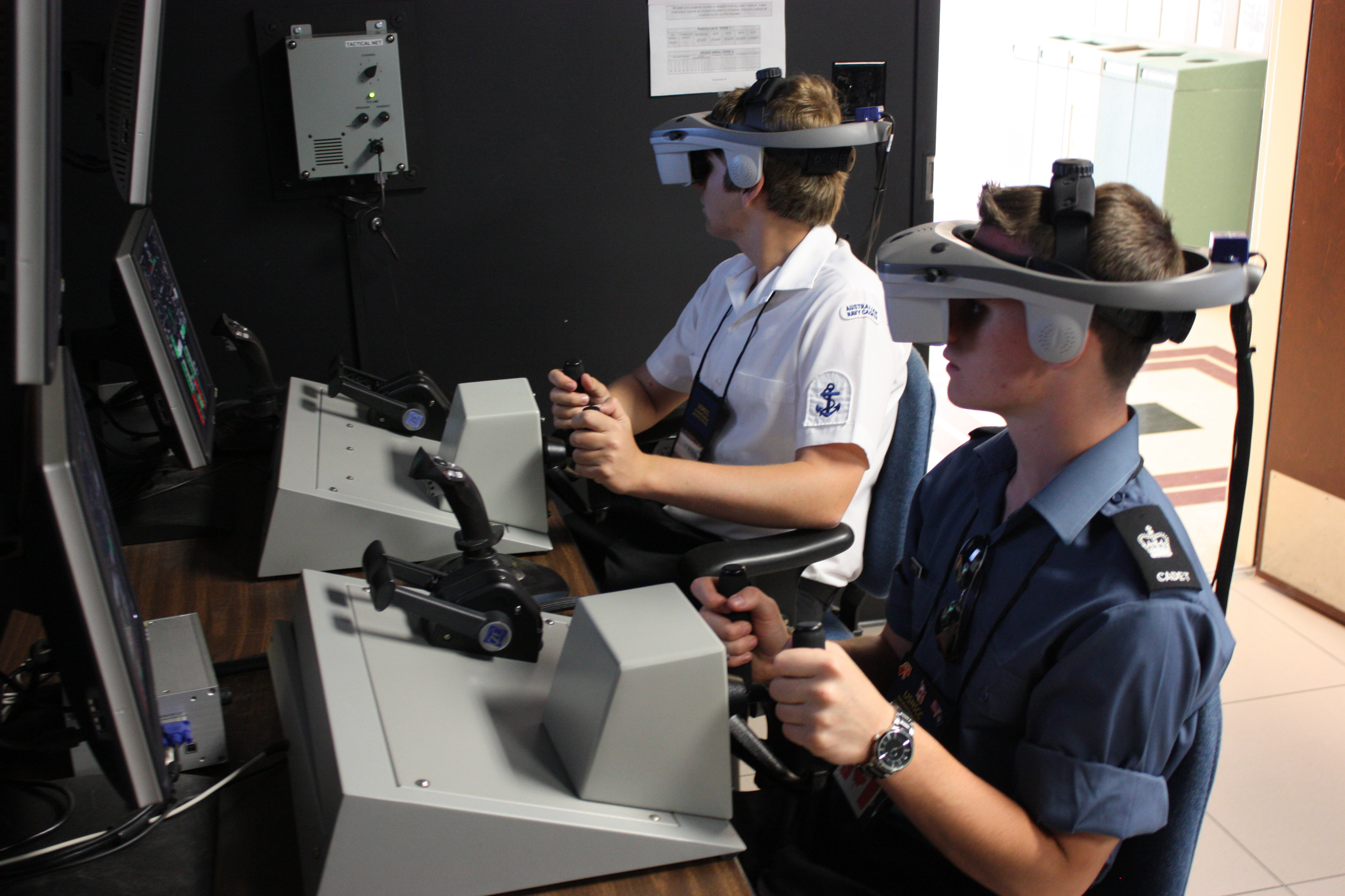 NEWPORT, R.I. (July 7, 2011) Sea Cadets from Australia and Canada operate a console of the rigid-hull inflatable boat simulator, a part of the full mission bridge virtual simulator, at the Surface Warfare Officers School during a visit to Naval Station Newport by the International Exchange Program. The visit was sponsored by the U.S. Naval Sea Cadet Corps. (U.S. Navy photo by Bob Krekorian/Released)